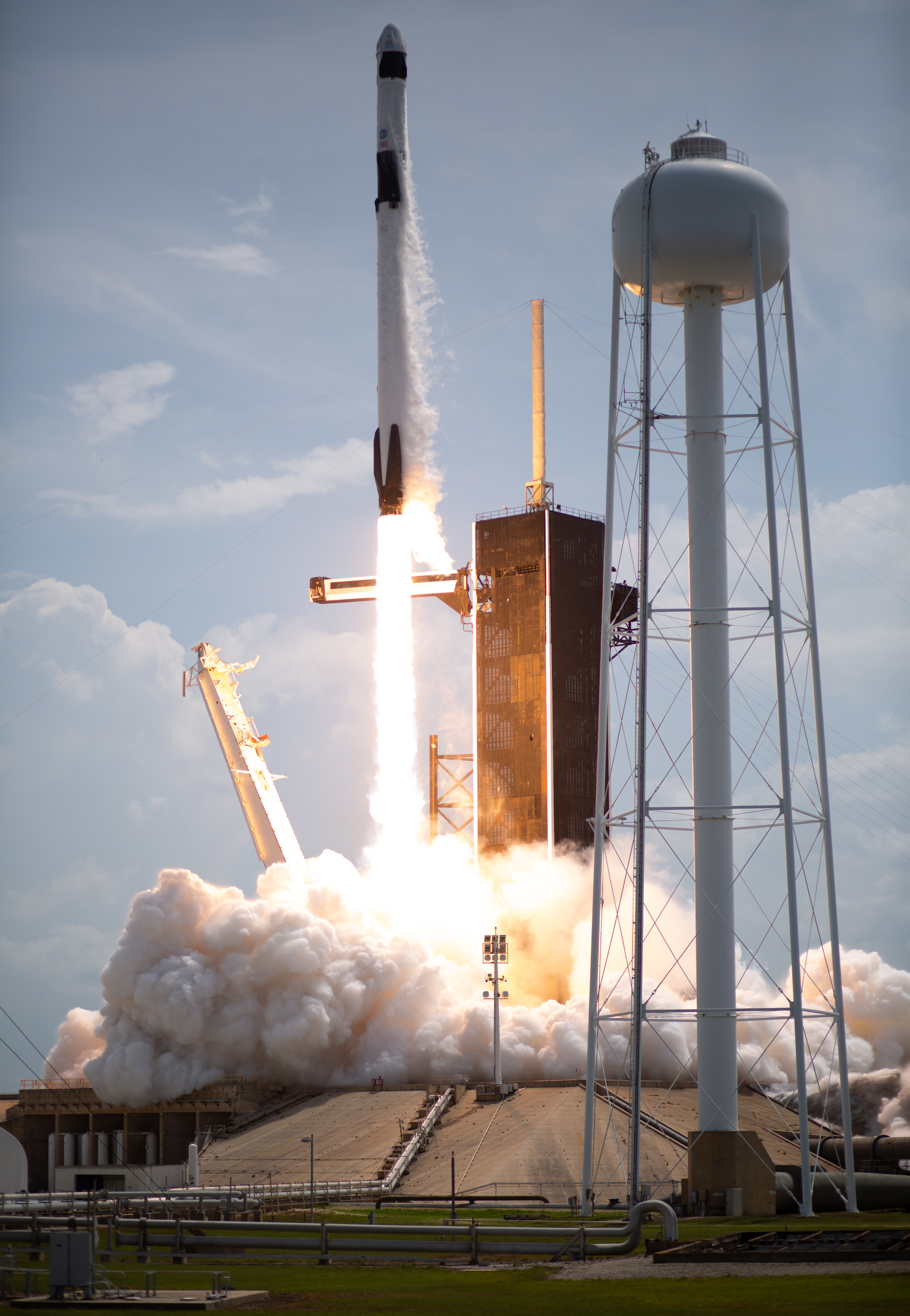 A SpaceX Falcon 9 rocket carrying the company's Crew Dragon spacecraft is launched from Launch Complex 39A on NASA’s SpaceX Demo-2 mission to the International Space Station with NASA astronauts Robert Behnken and Douglas Hurley onboard, Saturday, May 30, 2020, at NASA’s Kennedy Space Center in Florida. The Demo-2 mission is the first launch with astronauts of the SpaceX Crew Dragon spacecraft and Falcon 9rocket to the International Space Station as part of the agency’s Commercial Crew Program. The test flight serves as an end-to-end demonstration of SpaceX’s crew transportation system. Behnken and Hurley launched at 3:22 p.m. EDT on Saturday, May 30, from Launch Complex 39A at the Kennedy SpaceCenter. A new era of human spaceflight is set to begin as American astronauts once again launch on an American rocket from American soil to low-Earth orbit for the first time since the conclusion of the Space Shuttle Program in 2011. Photo Credit: (NASA/Joel Kowsky)